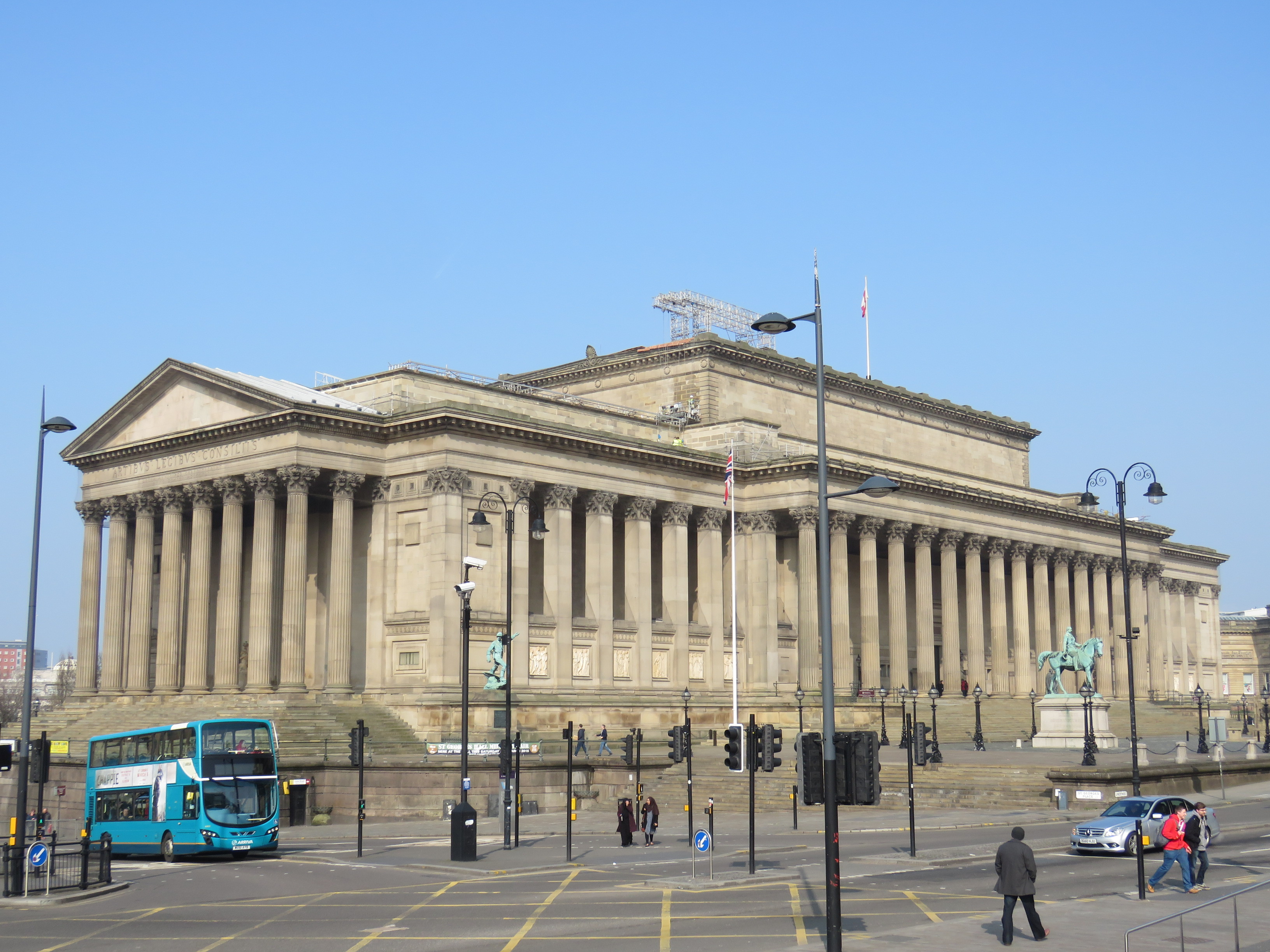 st george's hall, liverpool,UK